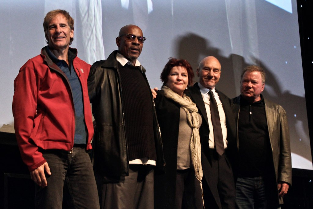 Destination Star Trek London: 5 Star Trek captains – Scott Bakula, Avery Brooks, Kate Mulgrew, Patrick Stewart and William Shatner